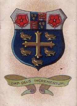 Westminster School Arms